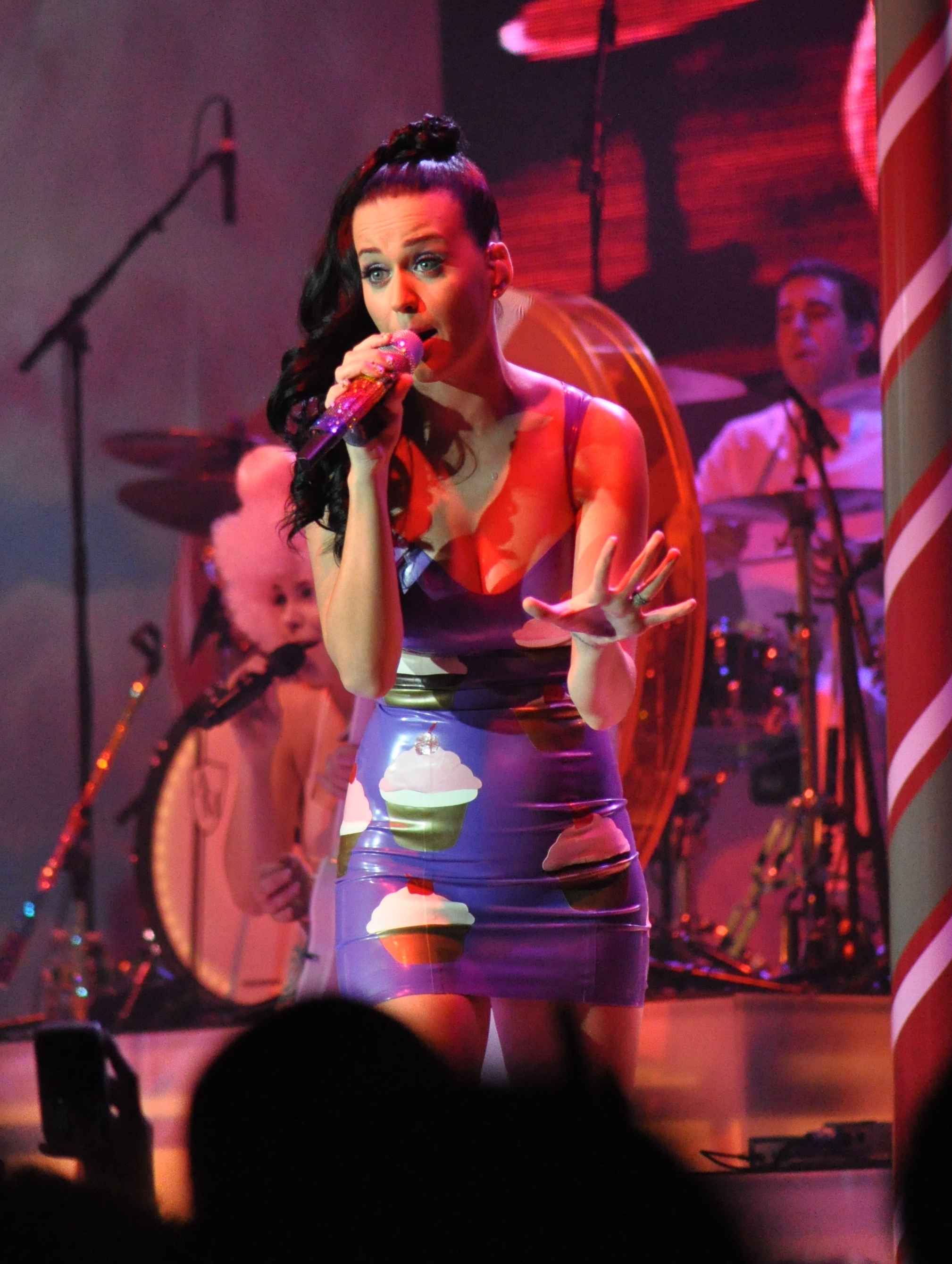 Katy Perry performing live at Roseland Ball Room in November